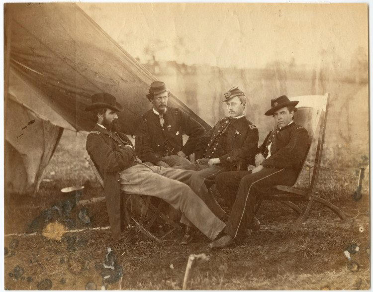 Title: [Four Union soldiers seated in chairs near a tent] Creator: Unknown Date: ca. 1861-1865 Part Of: Physical Description: 1 photographic print: albumen; 19 x 24 cm. File: ag2007_0008_007_tent_opt.jpg Rights: Please cite DeGolyer Library, Southern Methodist University when using this file. A high-resolution version of this file may be obtained for a fee. For details see the web page. For other information, . For more information, View Texas: Photographs, Manuscripts, and Imprints